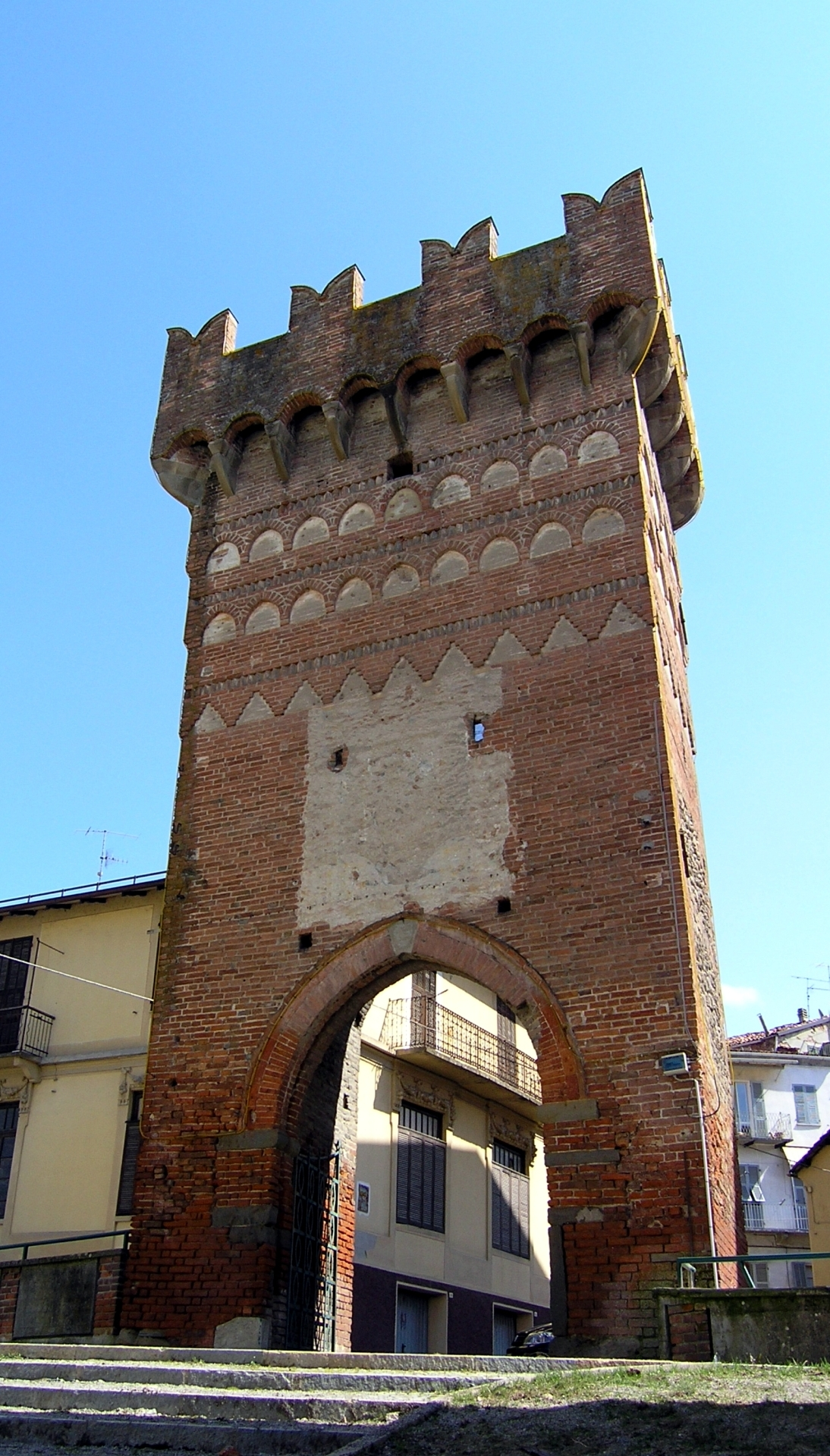 Picture of the Torre di Porta Tanar in Ceva (Italy)